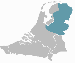 Map of the distribution of the dialect Dutch Low Saxon in the Low countries.